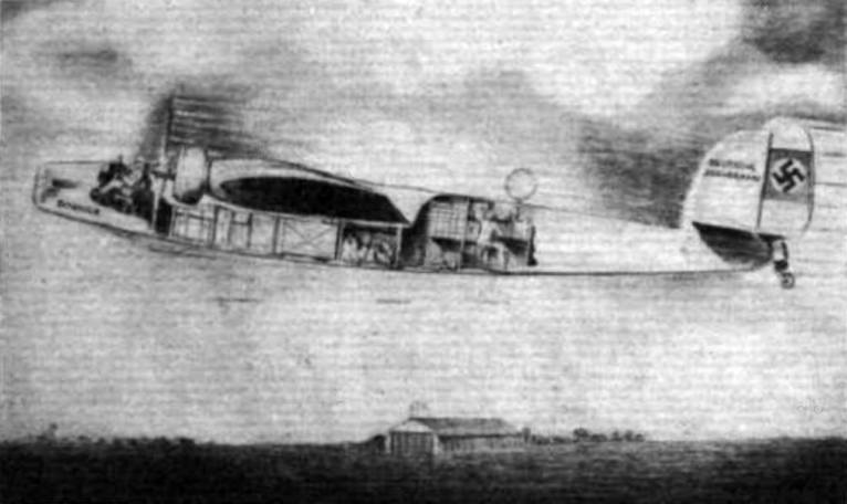 Drawing of the Dornier Do F transport plane. This plane had been developed in Japan by Dornier and was produced as the Do 11 bomber (having a fixed undercarriage) for the new German Luftwaffe.